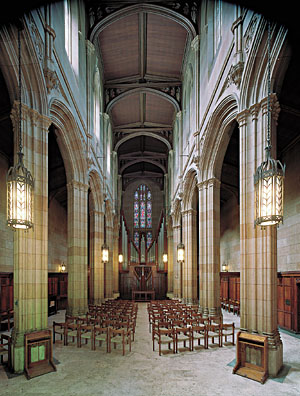 Dwight Hall Chapel